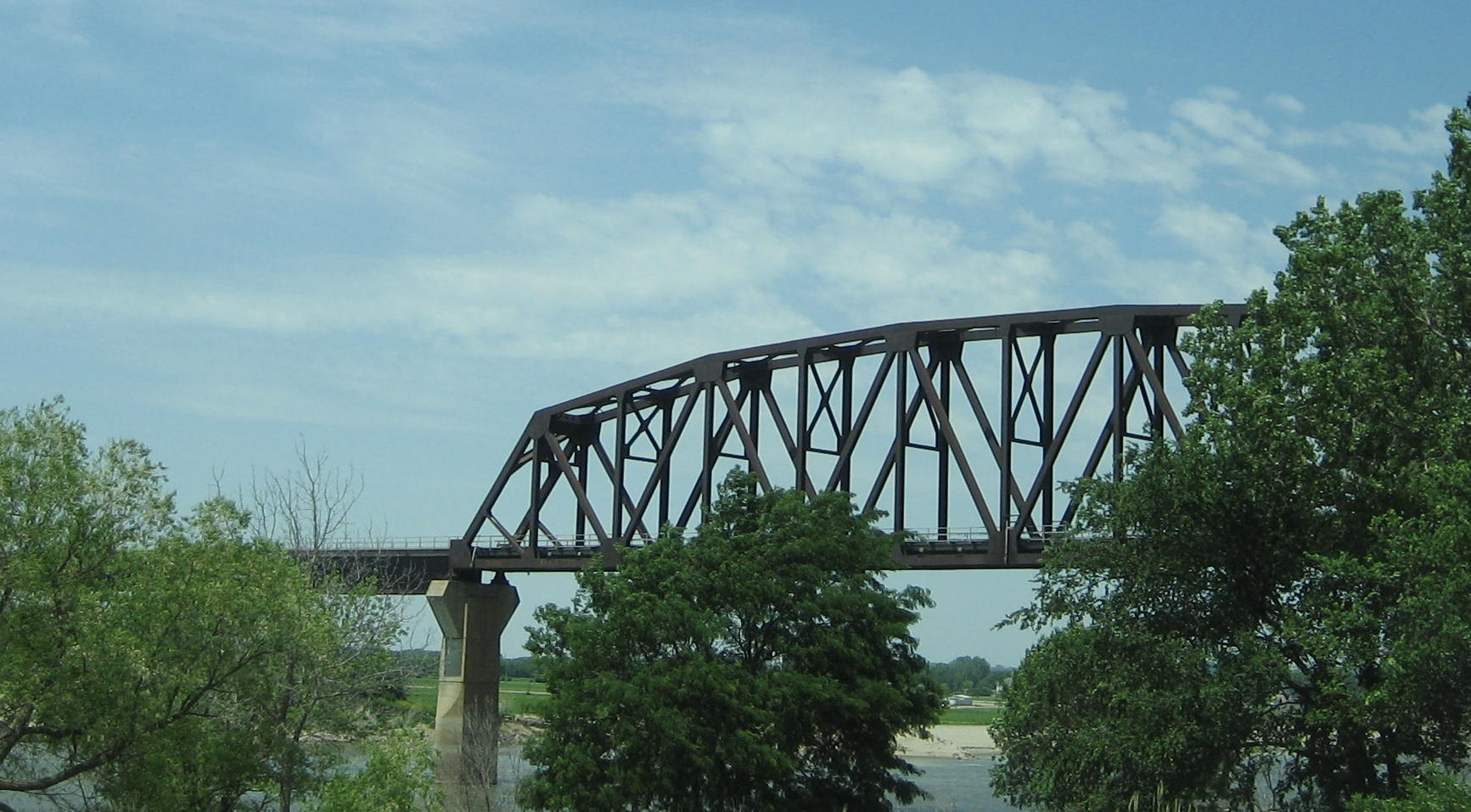 This railroad bridge crosses the Missouri River, going west from Iowa to Nebraska. I took this picture while driving down the Interstate. (Not to worry, actually, I was a passenger.)